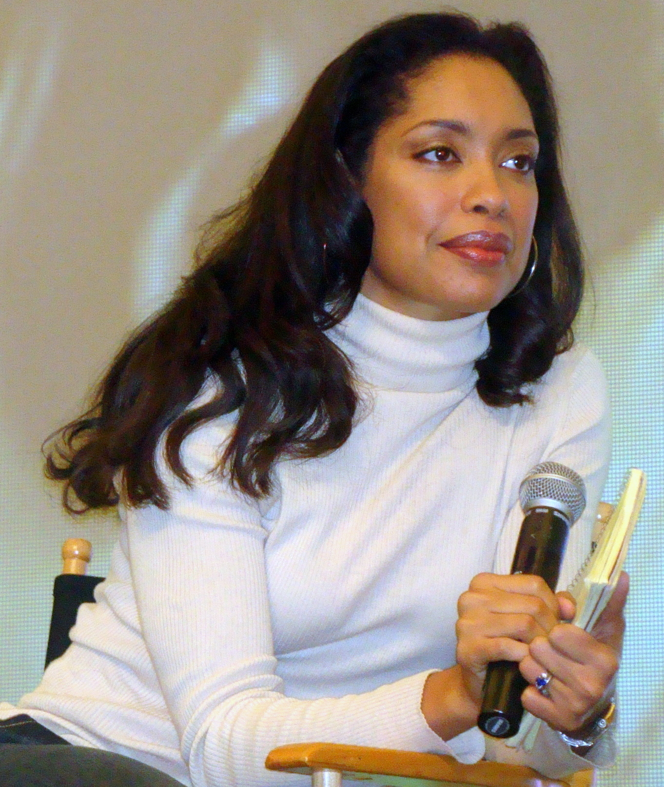 Gina Torres at the 2008 "Creation Entertainment's Salute to Firefly & Serenity" Convention in Burbank, CA (per Flickr group). Seated, with microphone, wearing a white turtleneck, in front of a video screen. Cropped, resized from the original Flickr image.